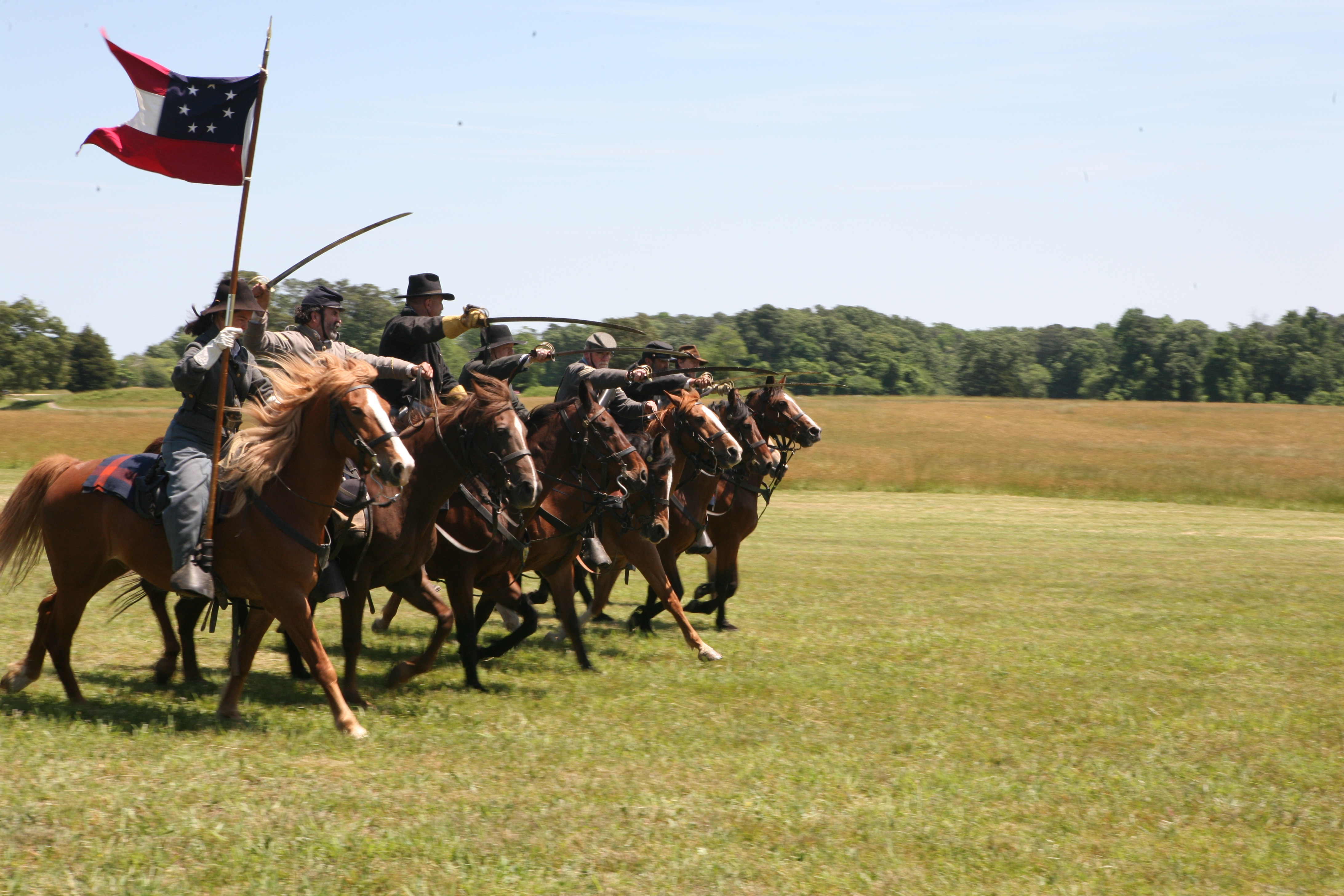 A historical reenactment in Yorktown, Virginia